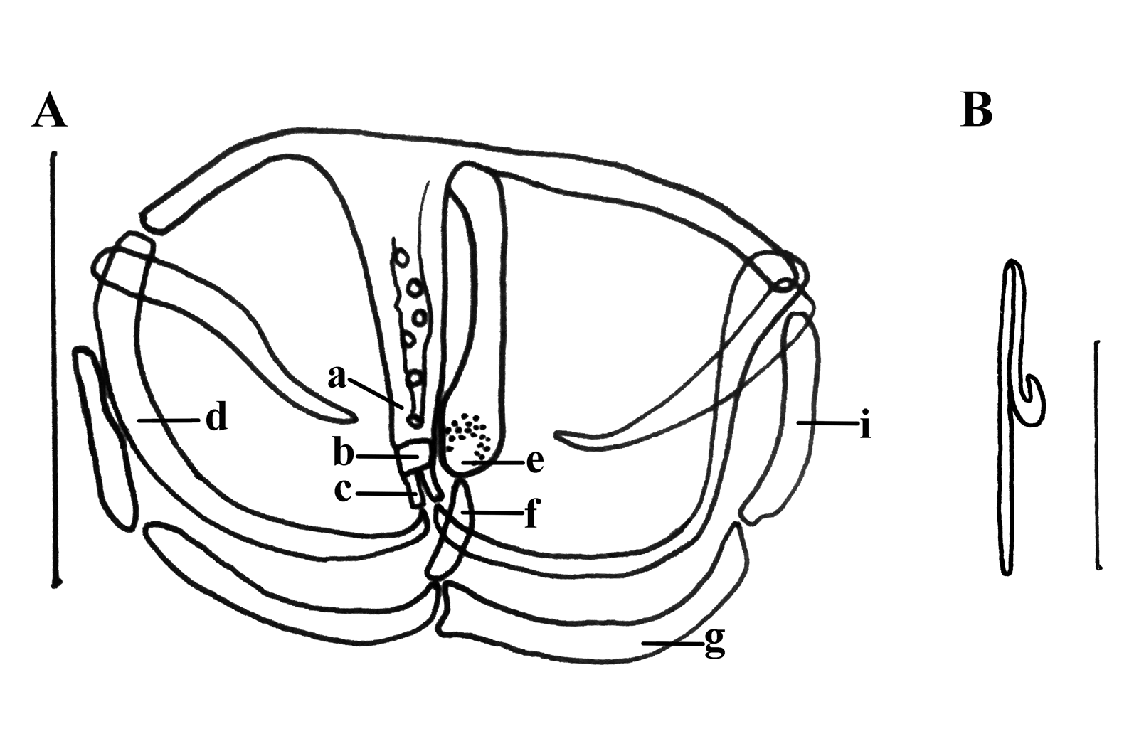 Figure 3 of paper Paradiplozoon yunnanense (Monogenea). Sclerites of posterior jaw divided into medial parts and lateral parts. (B) Point of the central hooks curls inward.